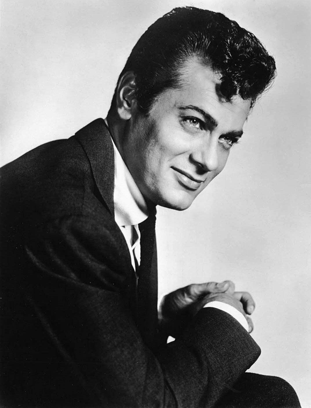 Publicity photo of Tony Curtis